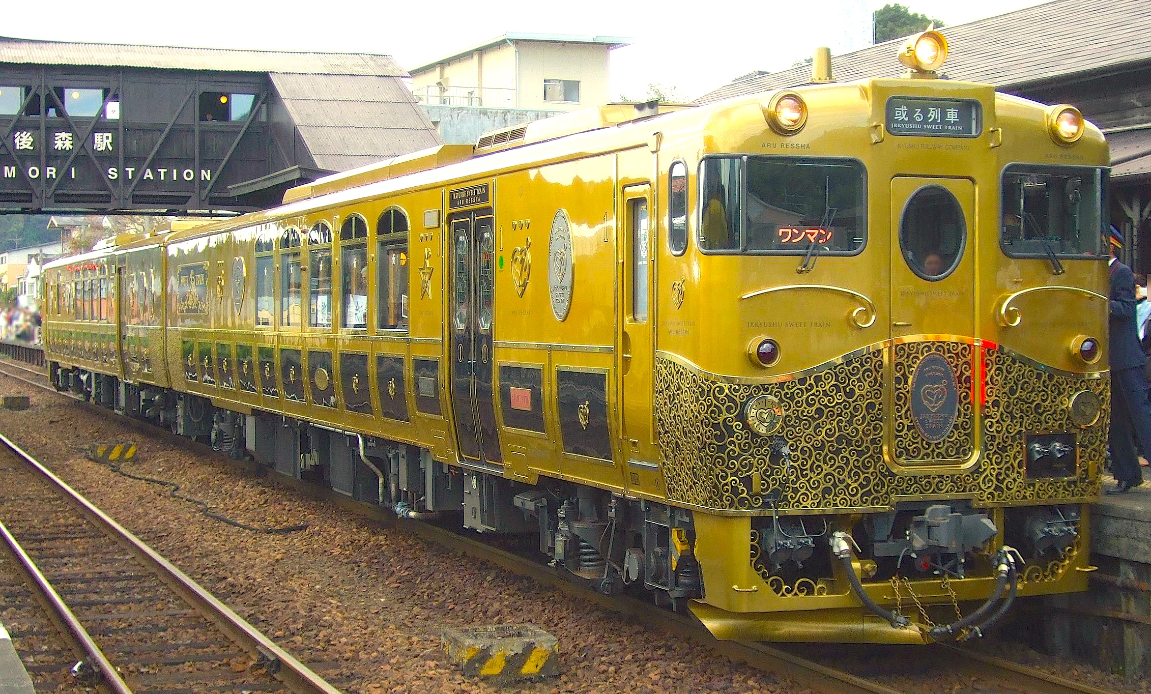 The JR Kyushu KiHa 40 series Aru Ressha 2-car DMU tourist train at Bungomori Station on the Kyudai Main Line in Kusu, Oita, Japan. Closest to the camera is car 1 (KiRoShi 47-9176), with car 2 (KiRoShi 47-3505) at the rear.